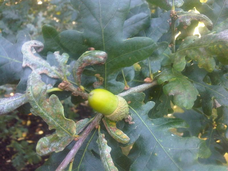 Pedunculate Oak or English Oak (Quercus robur) acorn in Kew Gardens, London, England.